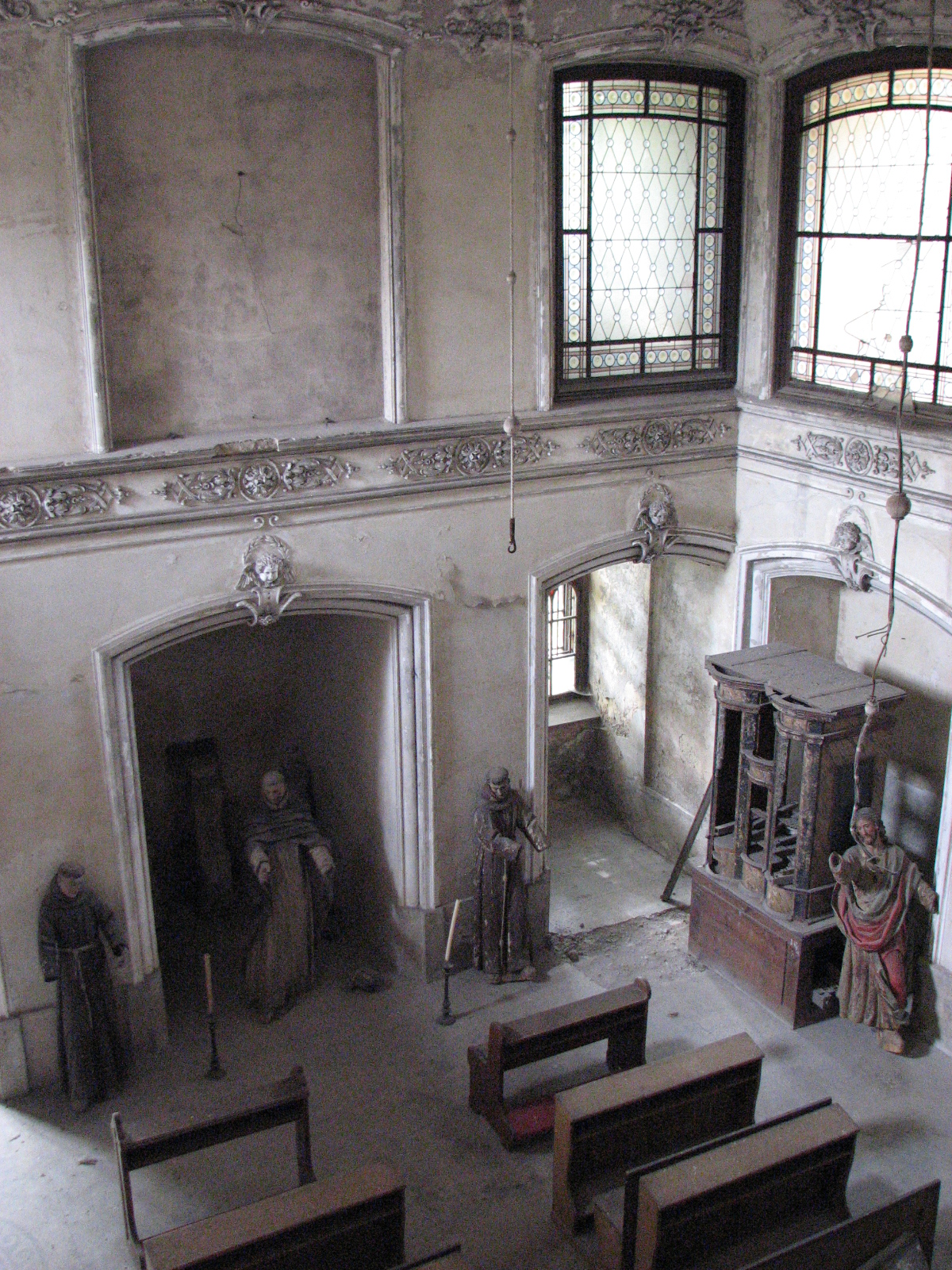 Chapel under reconstruction in Jezeri Chateau